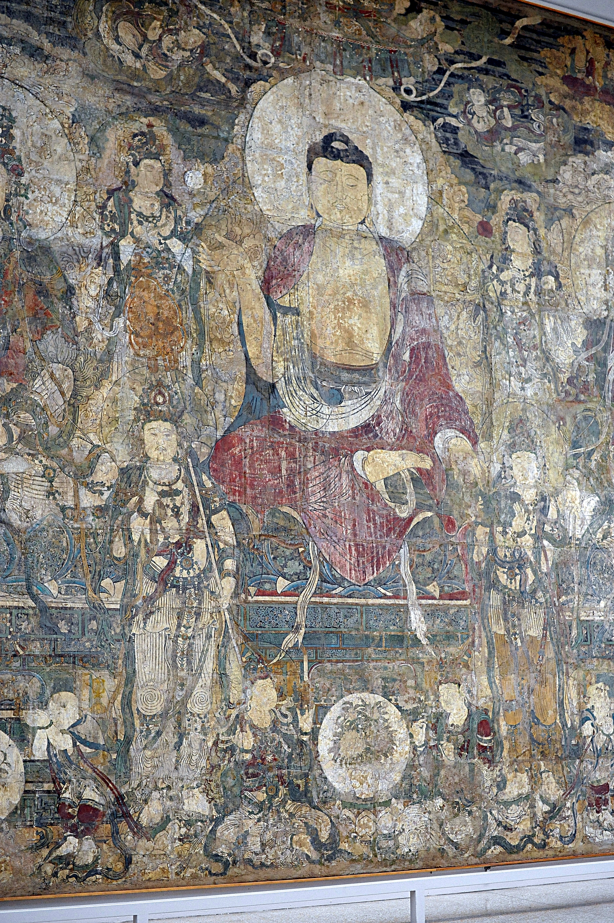 Created after 1309, before 1319 (during the Yuan Dynasty). Paint on plaster, 24 ft. 8 in. x 49 ft. 7 in. Located in the Main Hall of Asian Arts, The Metropolitan Museum of Art, New York, NY, United States